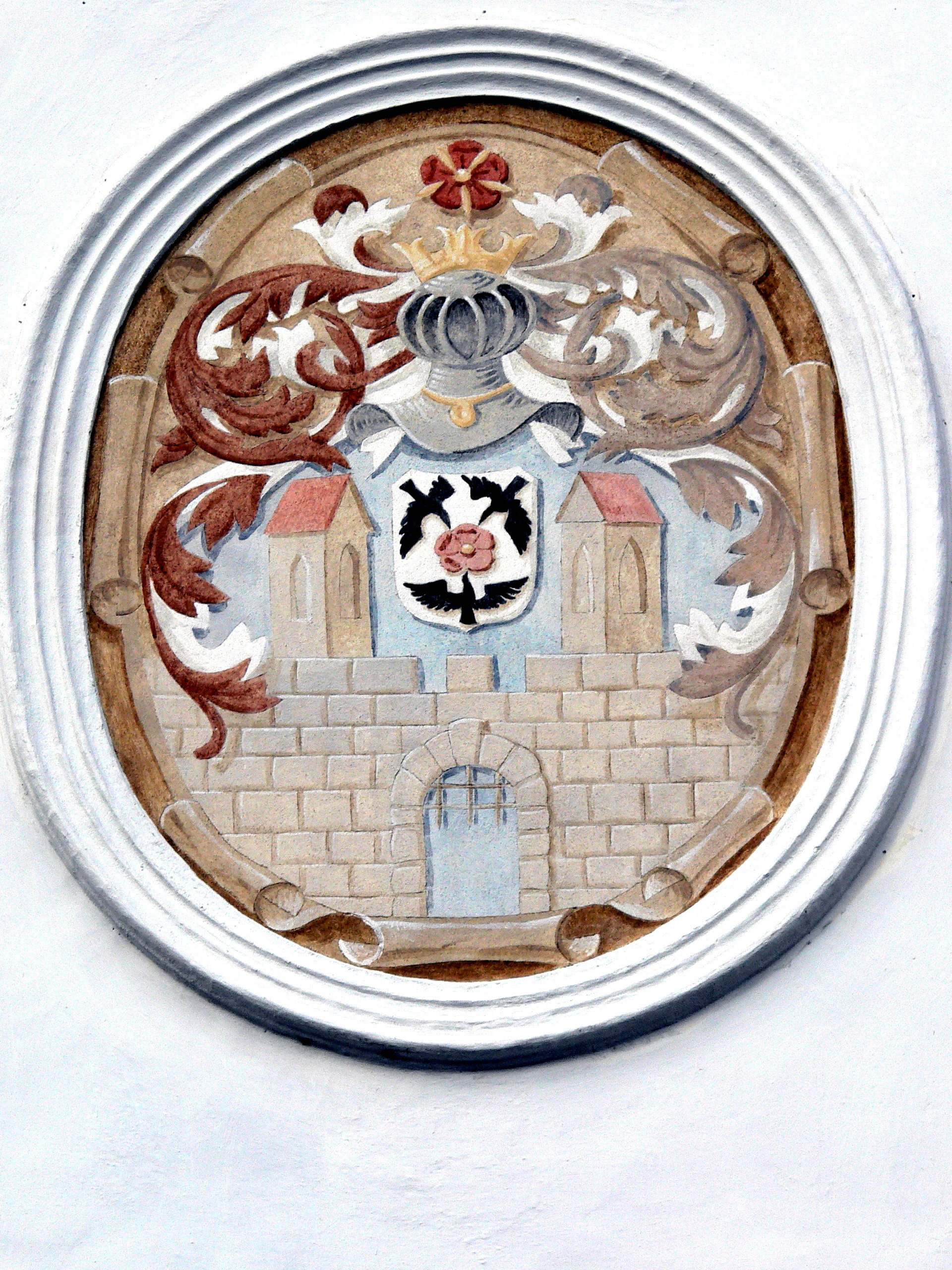 Český Krumlov. Coat of arms of the city at the townhall.